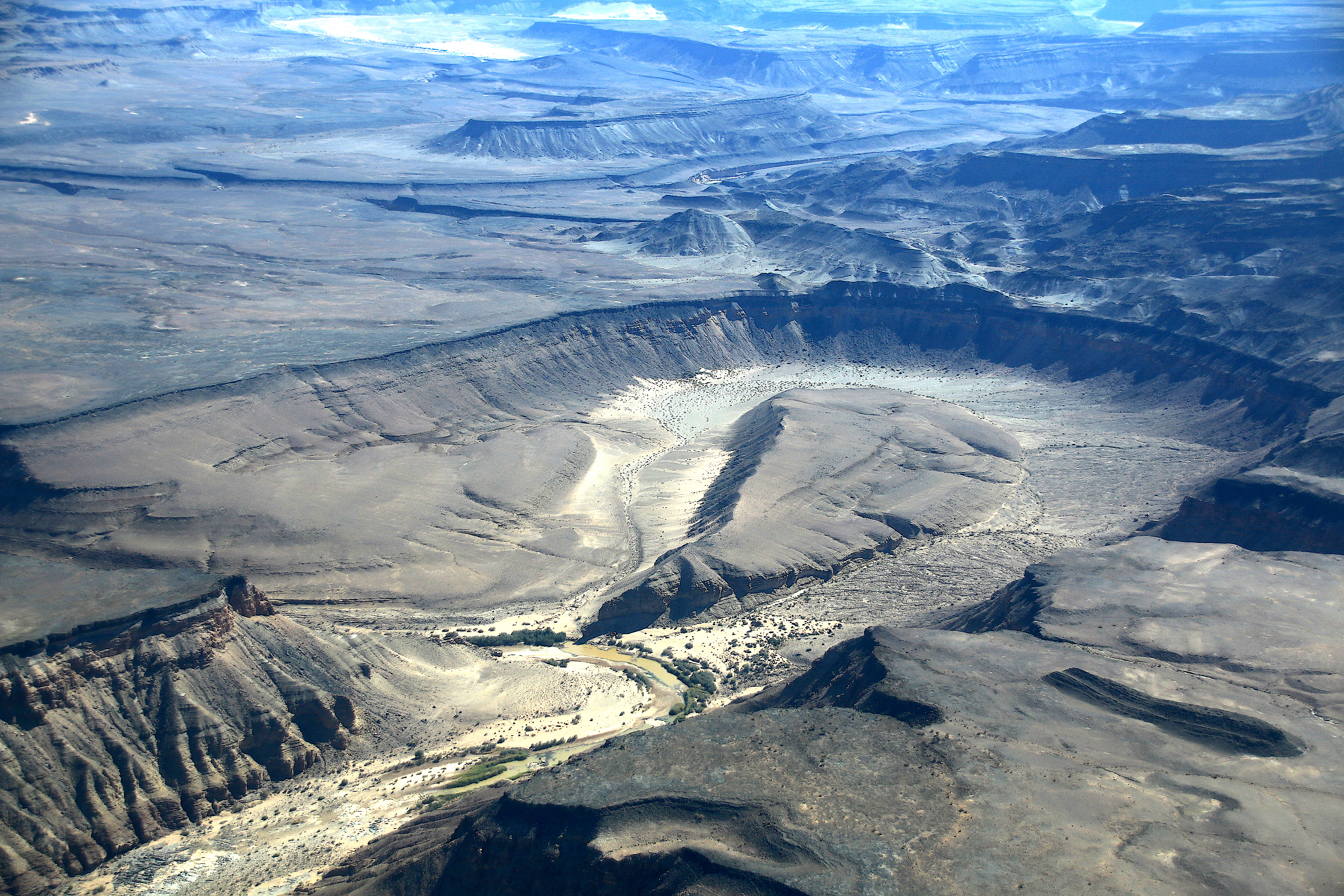 Abandoned entrenched meander loop and isolated hill-like meander spur of the Fishrivier valley, Namibia